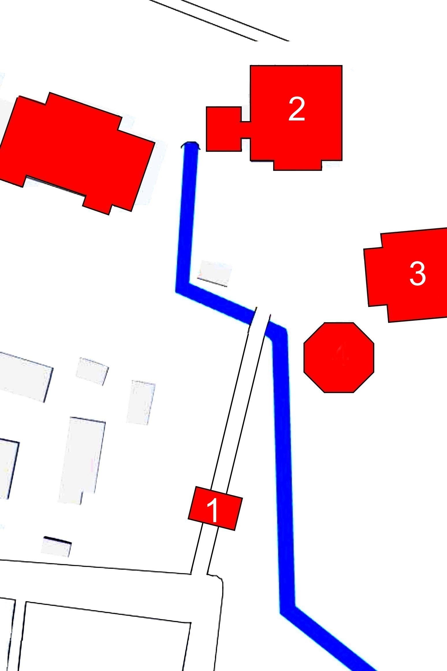 Layout of Konsen-ji, Tokushima Prefecture